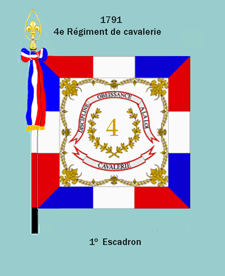 1791 colors of the french 4th Cavalry regiment